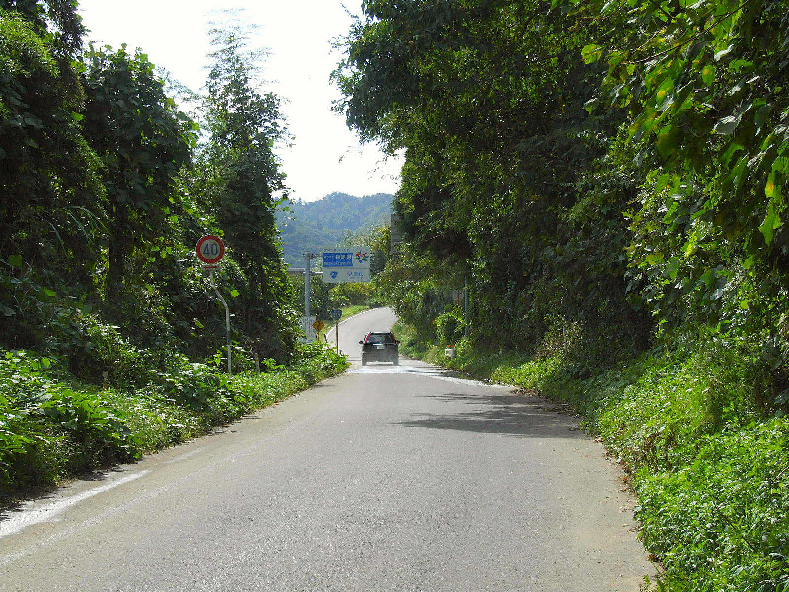 Route 349 (National Highway 349) of Japan. Marumori, Miyagi prefecture, Japan.